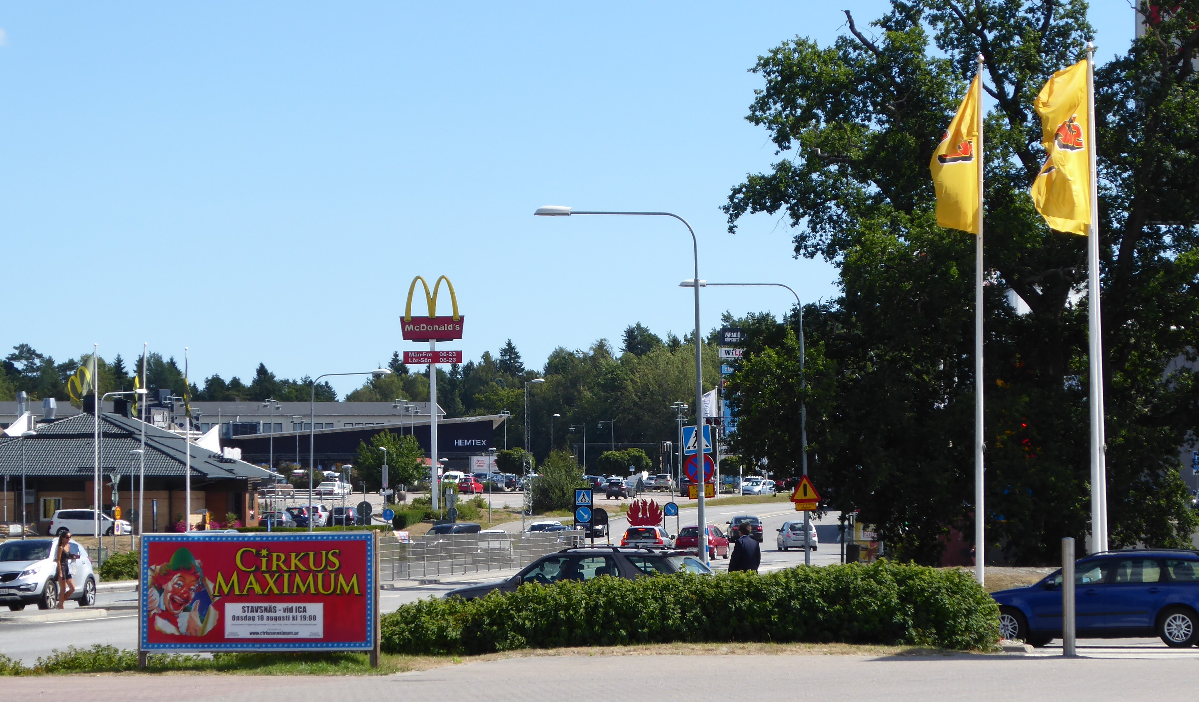 Mölnvik köpcentrum, Gustavsberg